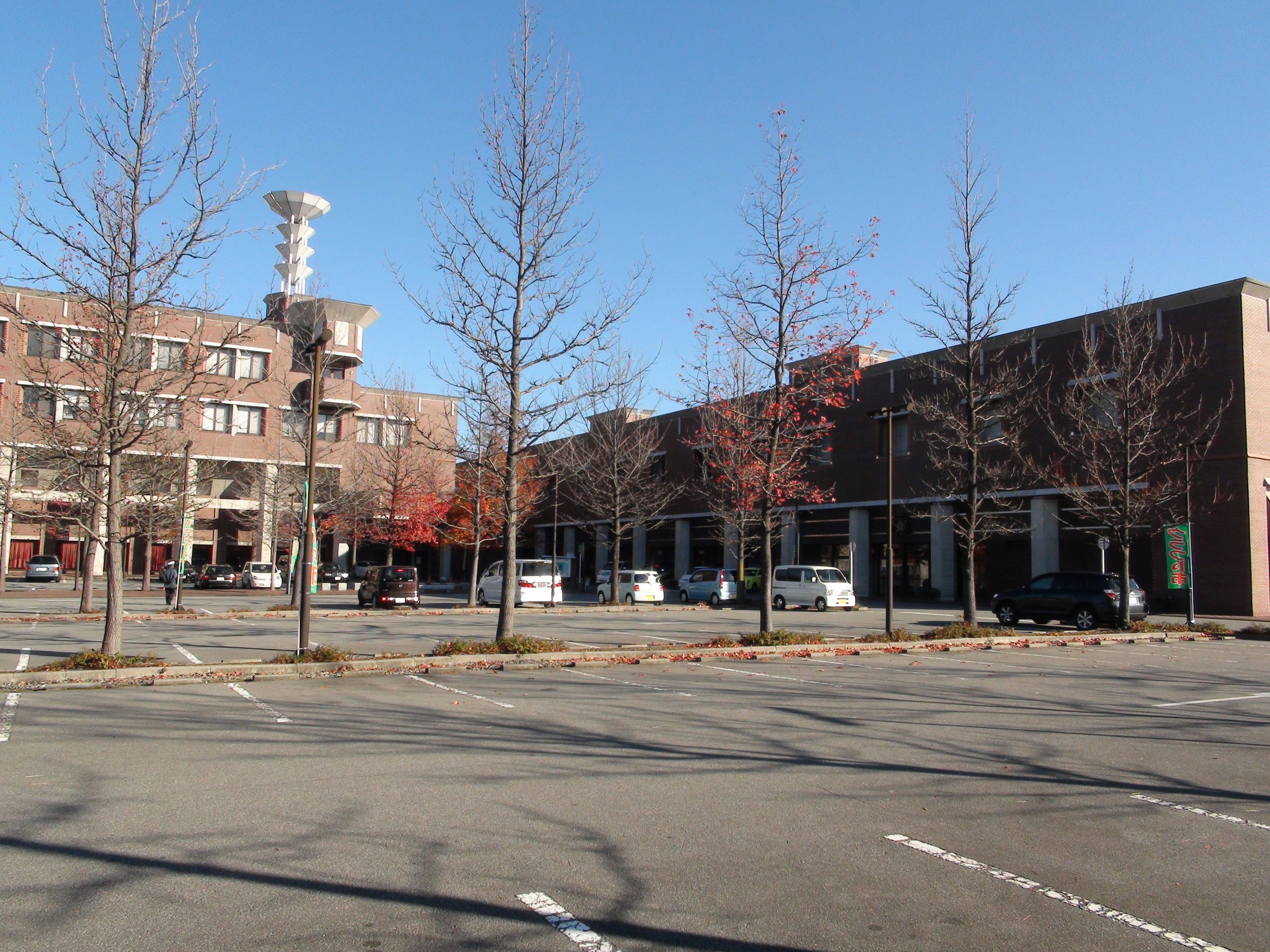 I messe Yamanashi is Convention centers in Yamanashi prefecture